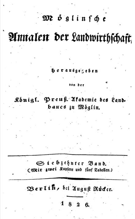 Möglinsche Annalen der Landwirthschaft, title page Vol. 17, 1826